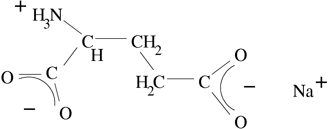 Structural formula of the food additive monosodium glutamate.